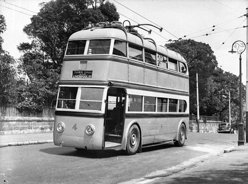 Sydney trolleybus number 4 - entitled "Trolley bus (taken for Harrison)". No. 4 was built in 1936 and had an AEC chassis and a body made by the local firm of Sydney Wood (of Bankstown). It was withdrawn from service in 1953.